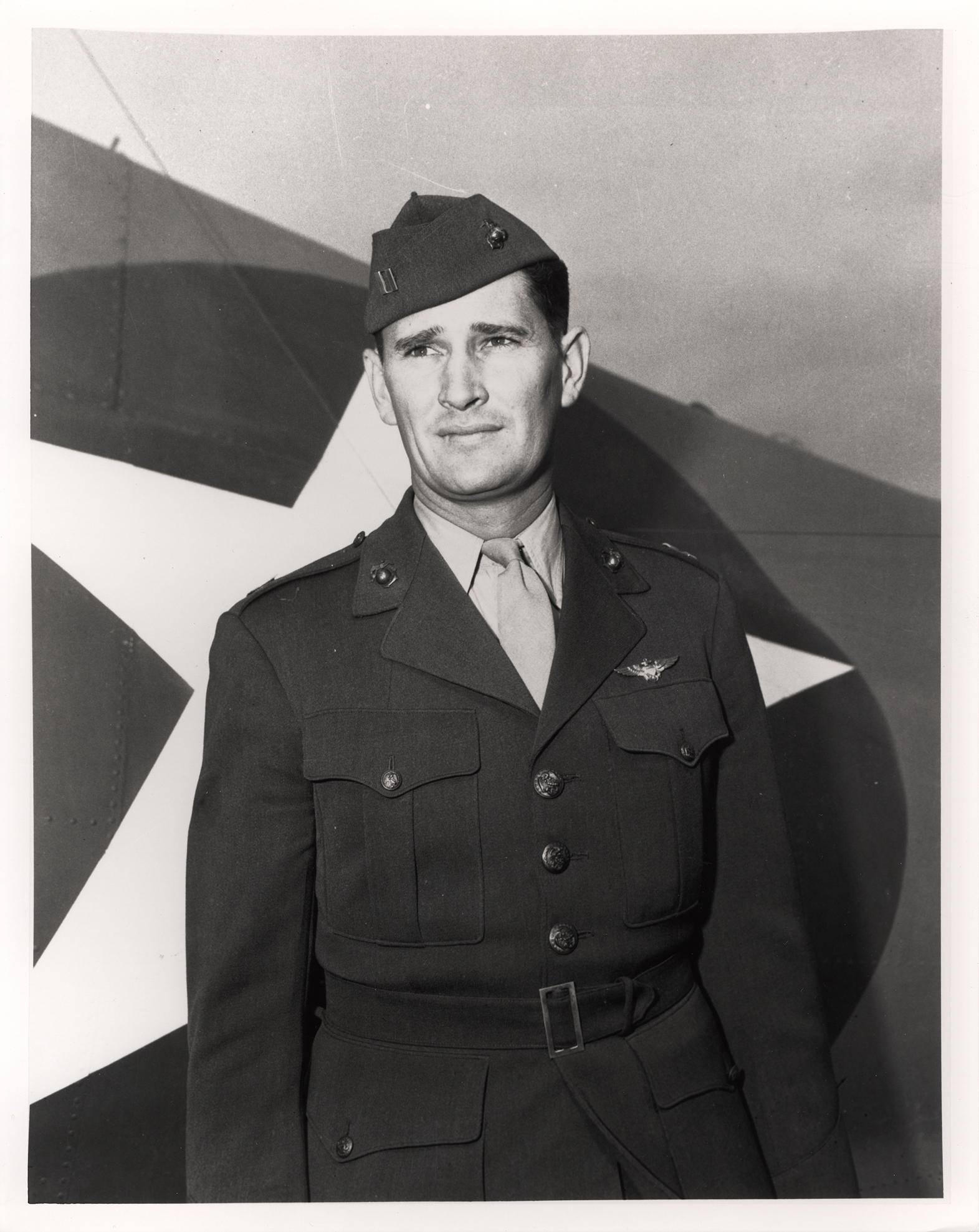 Joe Foss, USMC, WWII flying ace, Medal of Honor recipient Source:Official Marine Corps biography Author:United States Marine Corps URL